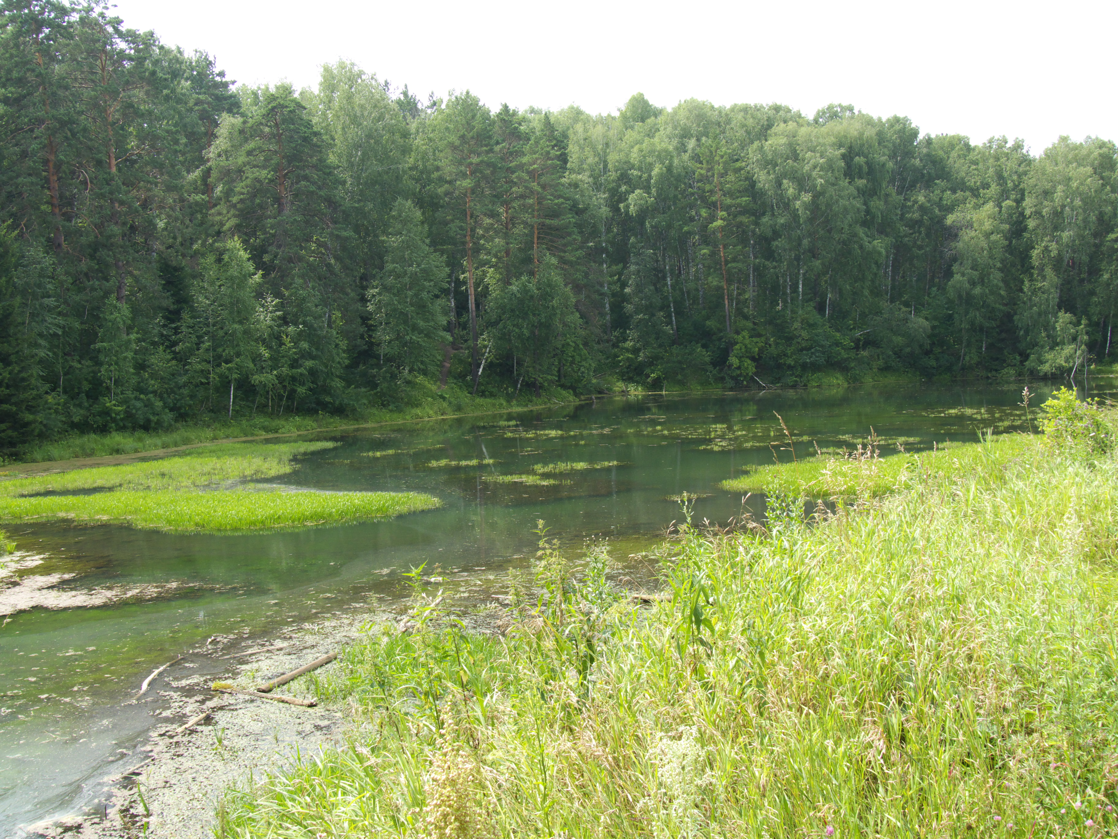 Lake in Central Siberian Botanic Garden